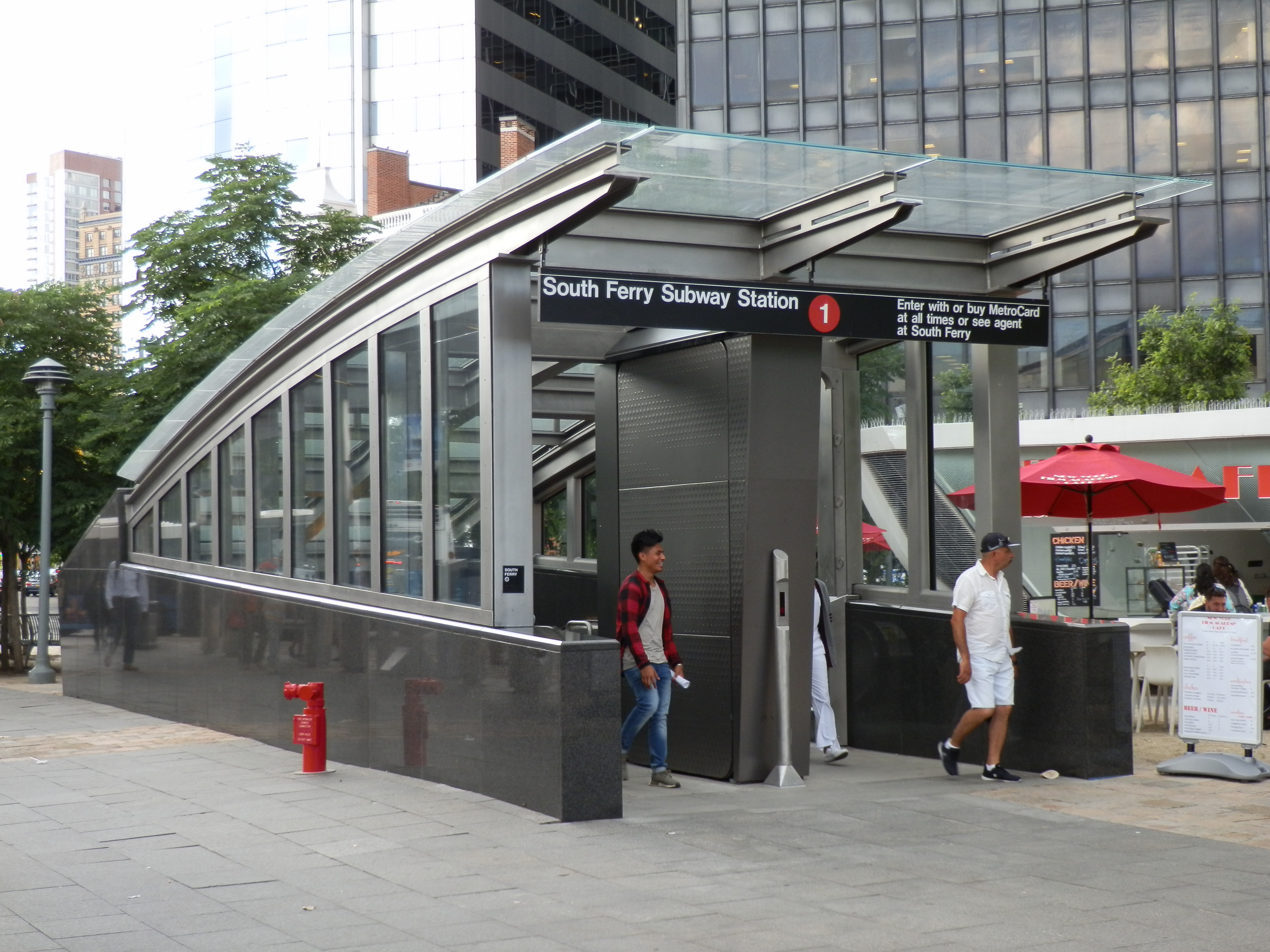 The most significant architectural and structural changes to the station can be found on the surface, where redesigned station entrances can be sealed off to protect the station from floodwaters. This entrance is in Peter Minuit Plaza, in front of the Staten Island Ferry's Whitehall Terminal.